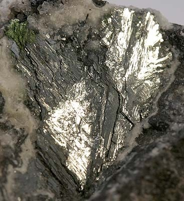 Crednerite Locality: Torr Works Quarry (Merehead Quarry), Cranmore, Somerset, England, UK (Locality at ) Size: 7 x 4 x 4 cm. This is an extremely rare copper species, CuMnO2; and a very rich specimen featuring a beautiful, bright, metallic spray of flat crednerite crystals to 2 cm. Ex. Eric Asselborn Collection.